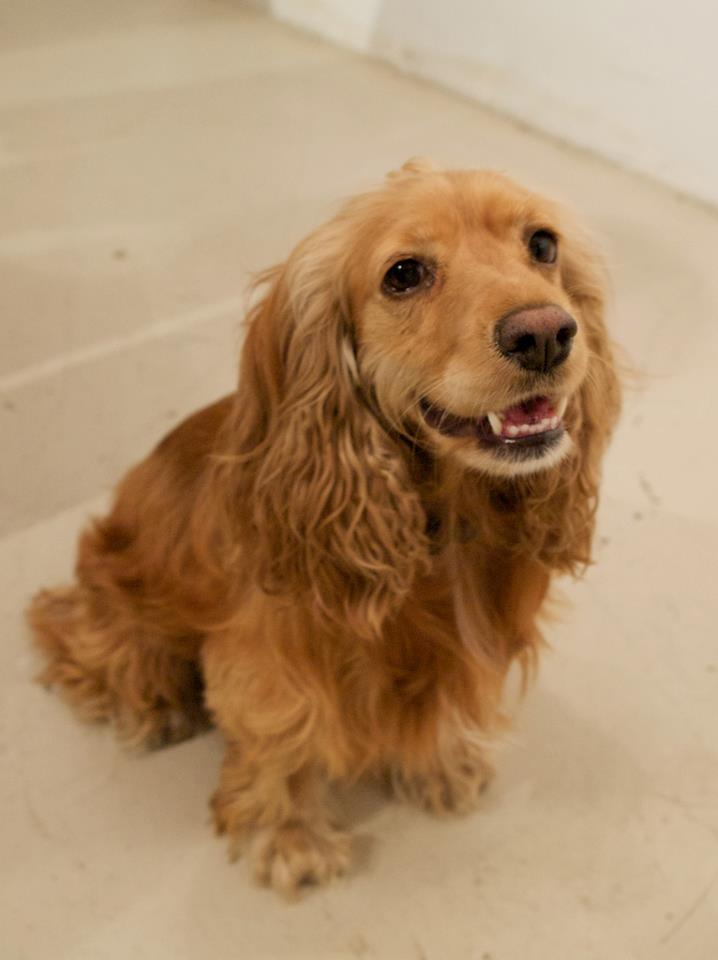 English cocker spaniel, female, age 3